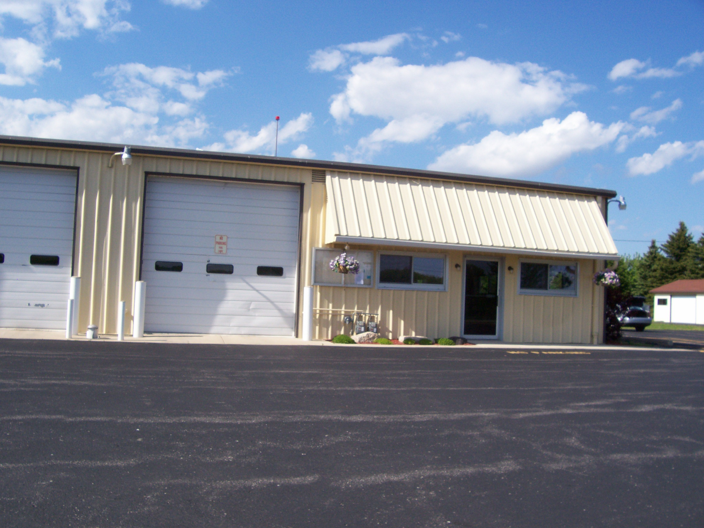 Looking north at the town hall for Vandenbroek, Wisconsin, U.S. a short distance off of Wisconsin Highway 55.